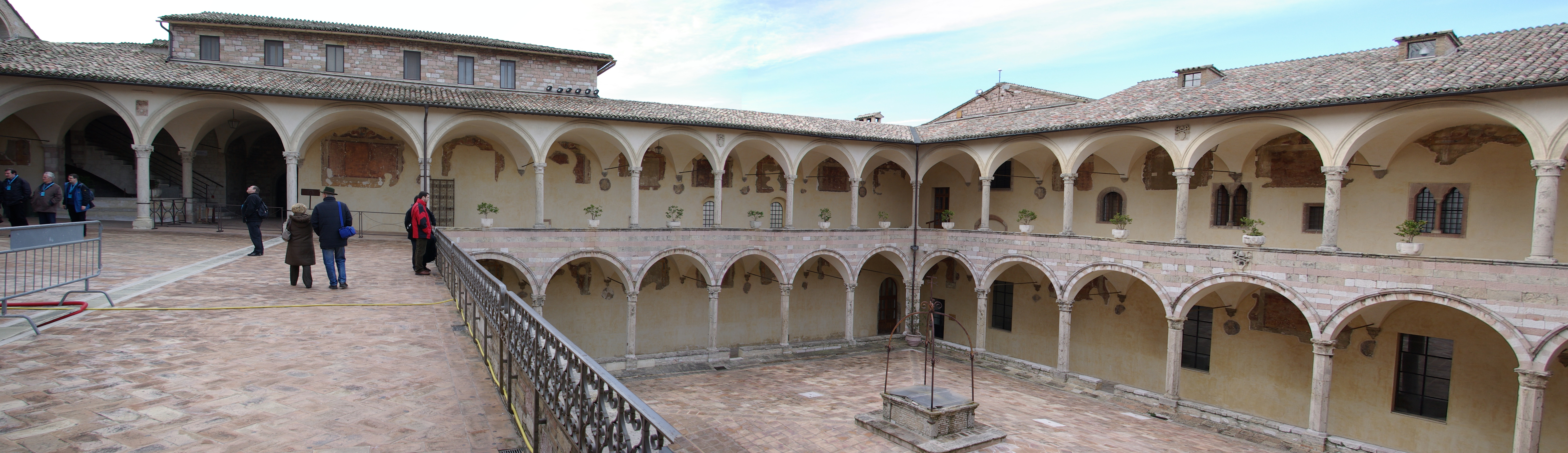 Assisi, Basilica San Francesco